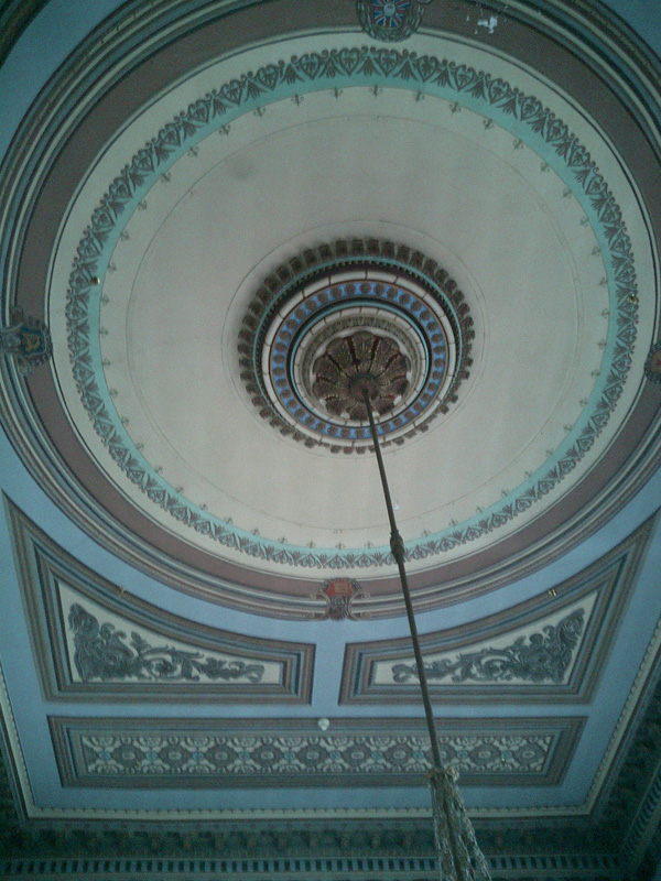 The ceiling in the former chamber of the Newfoundland House of Assembly in the Colonial Building, St. John's, Newfoundland and Labrador, Canada. The detailed ceiling was painted by an inmate in exchange for one less month in his sentence.